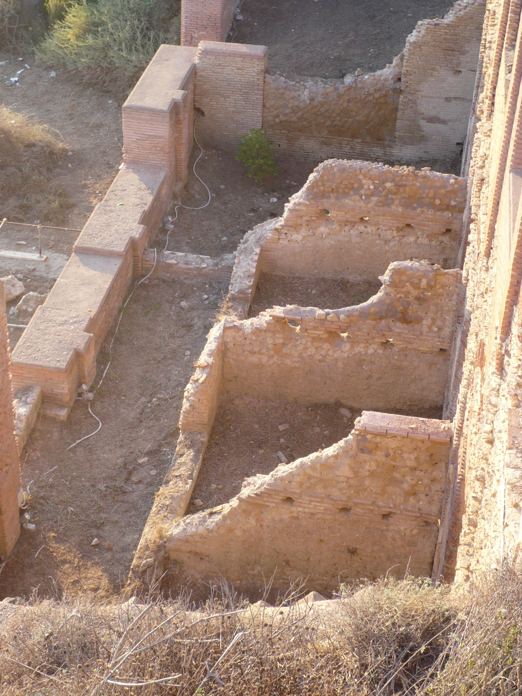 Ancient library of the Domus Neroniana, Anzio